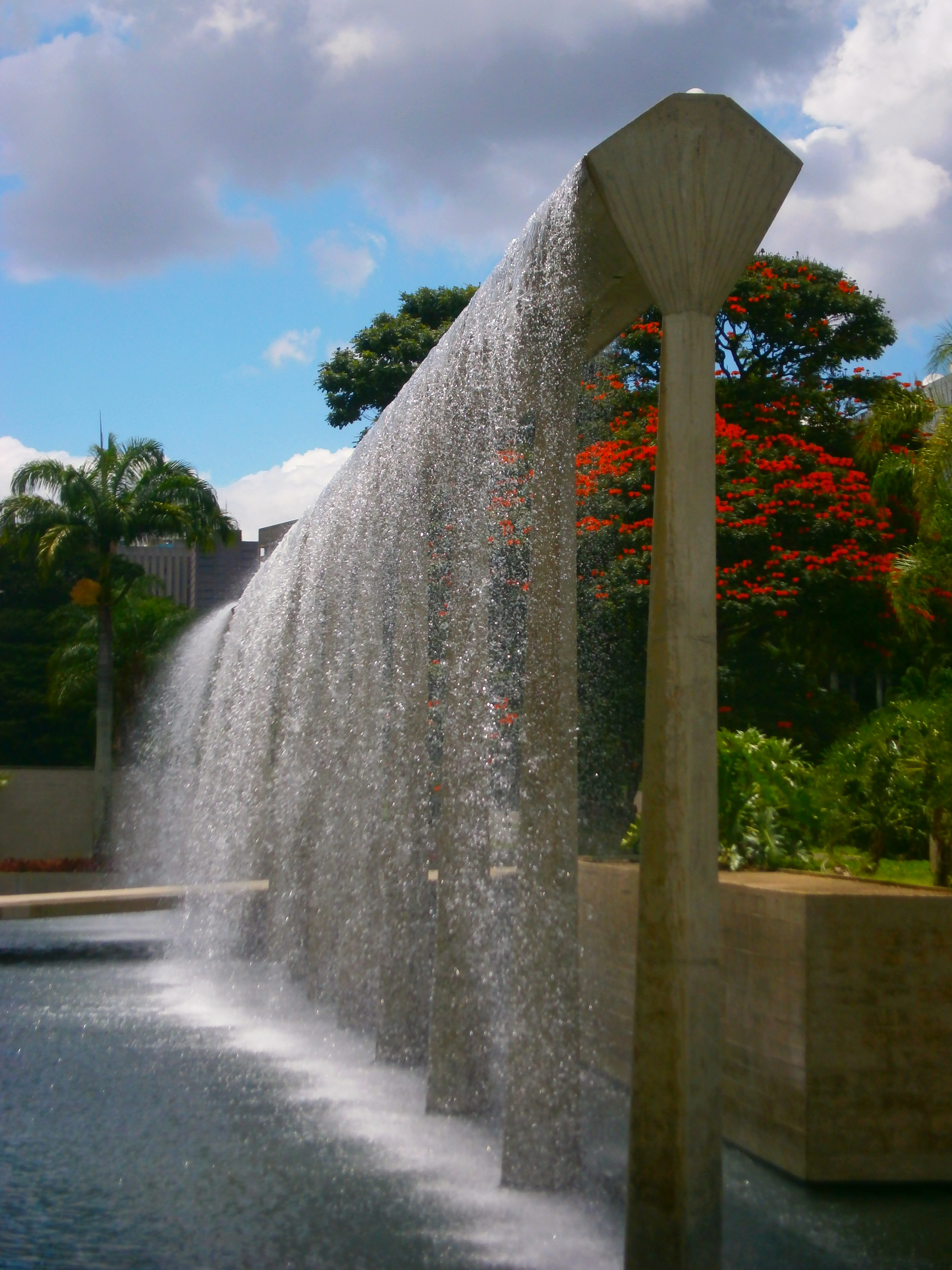 Fountain